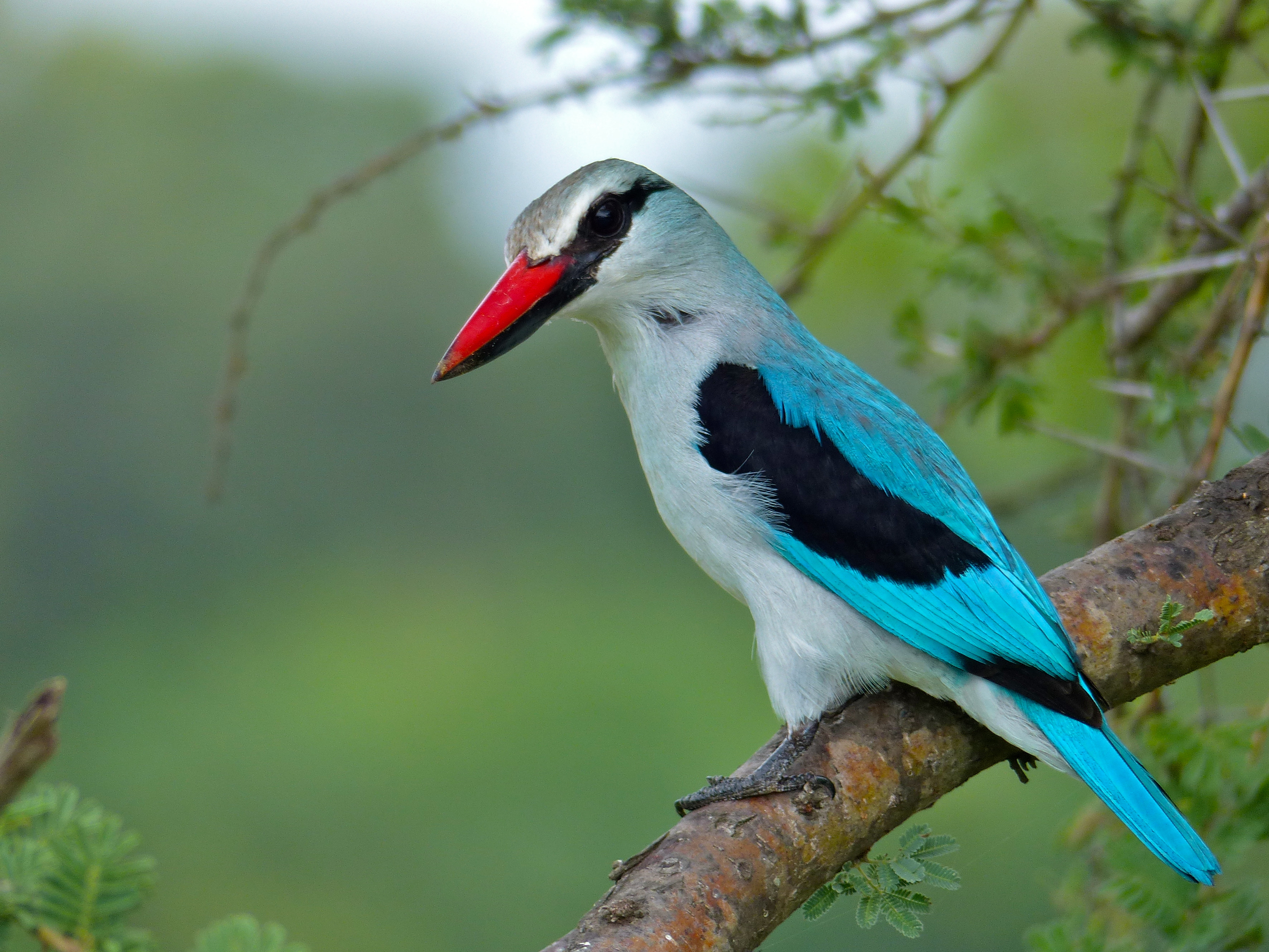 H1-6 Road North of Letaba, Kruger NP, SOUTH AFRICA